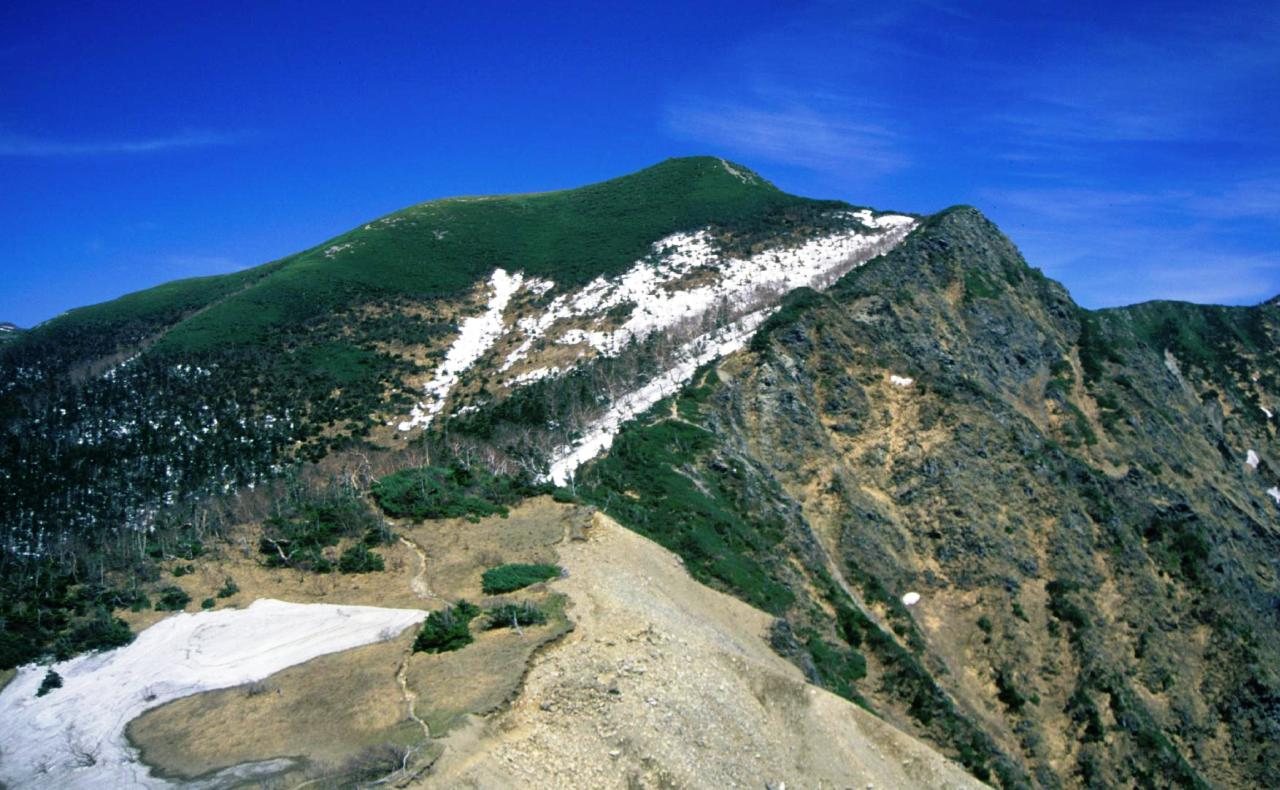 Mount Eboshi from Sanpuku-tōge